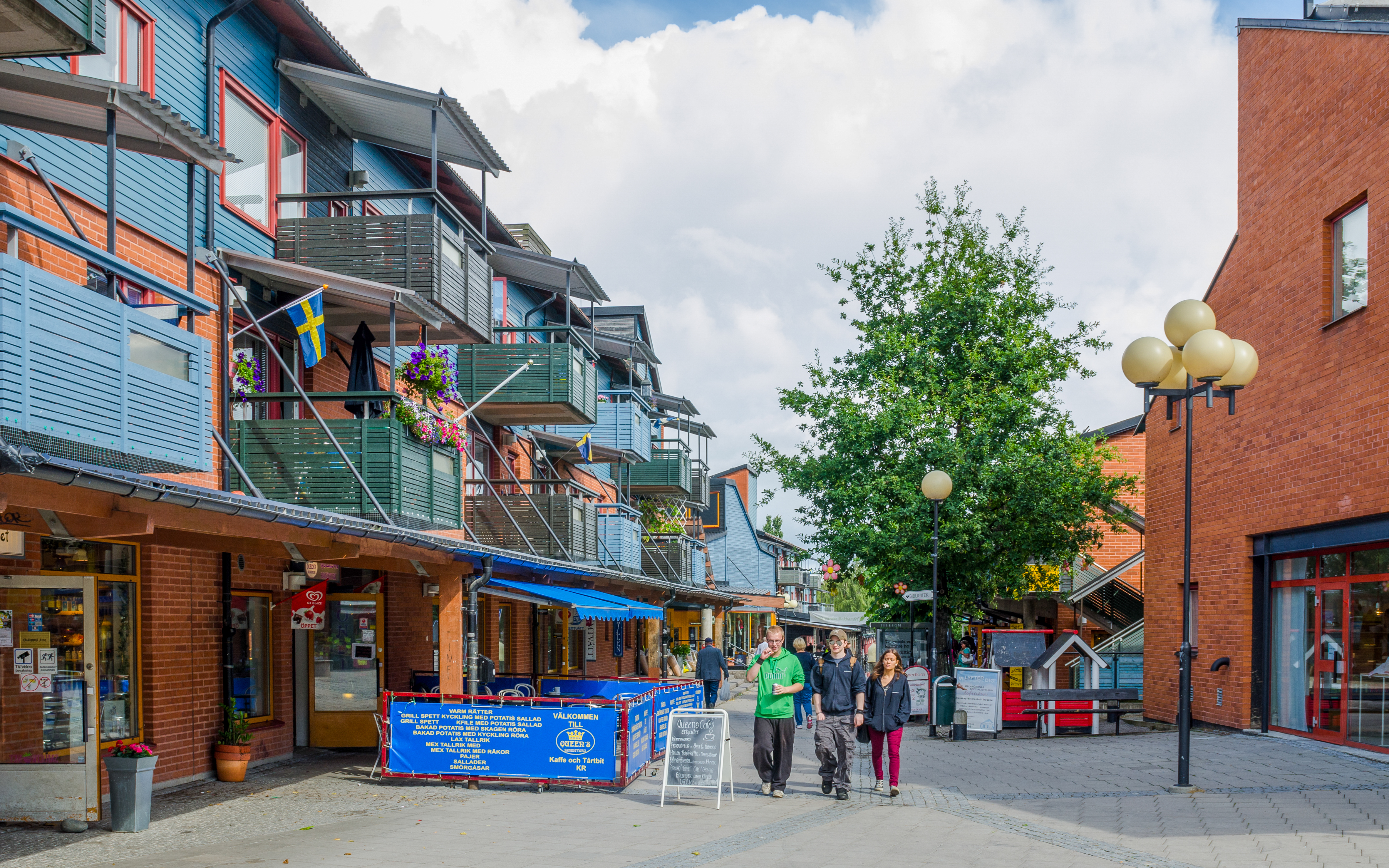 Ekerö centrum, Ekerö Municipality, Stockholm County, Sweden. Completed 1991. Architect Ralph Erskine.